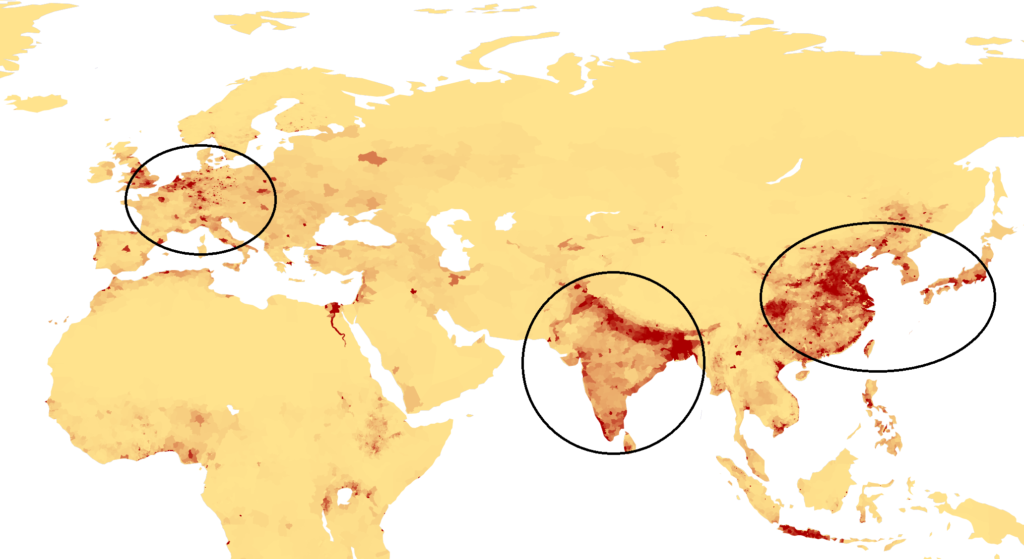 Map of human density in 1994 : Europa, South-Asia & East-Asia.